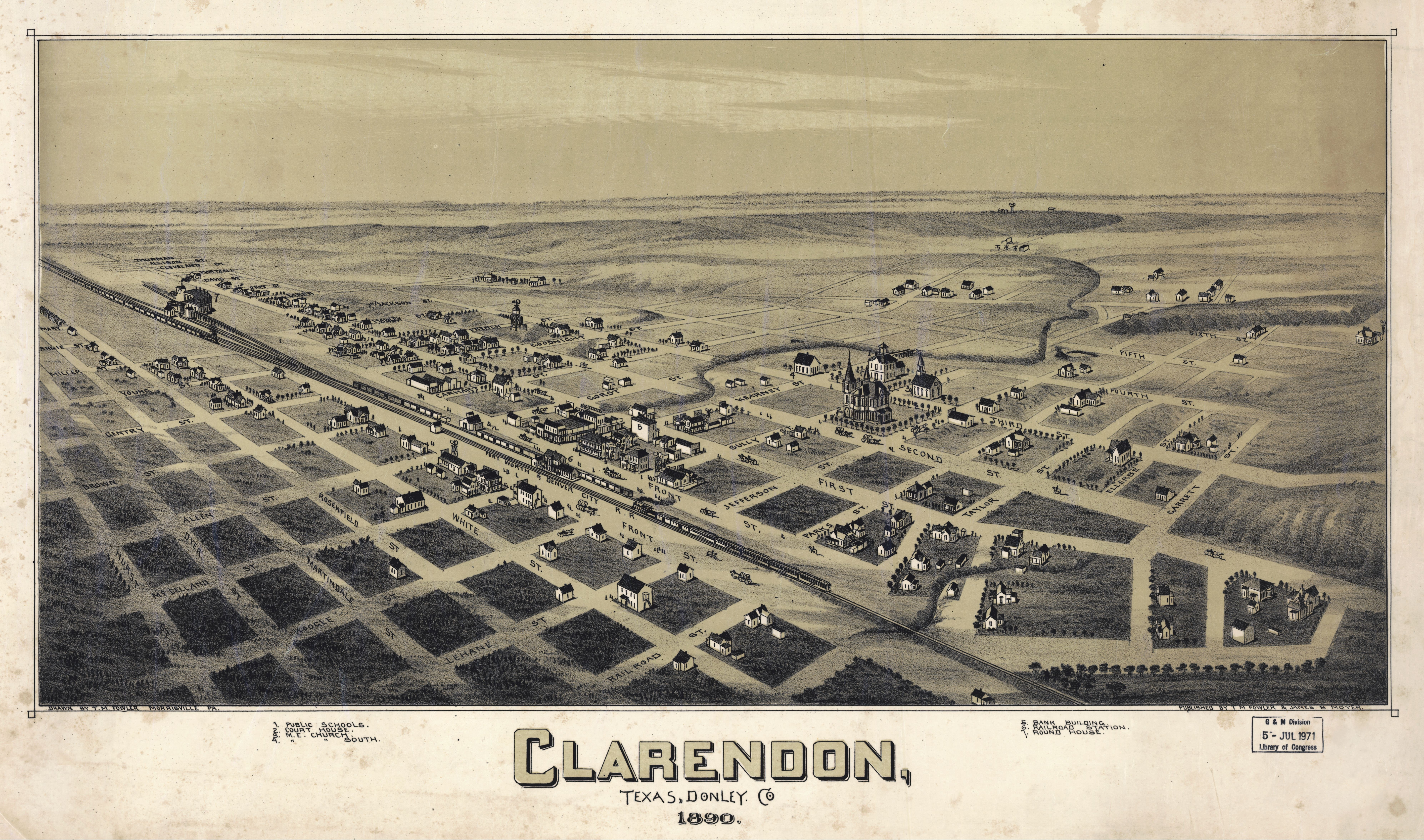 Clarendon, Texas in 1890. Clarendon, Texas, Donley Co. 1890, 1890. Toned lithograph, 14.5 x 25 in. Published by T. M. Fowler and James B. Moyer. Geography and Map Division, Library of Congress.